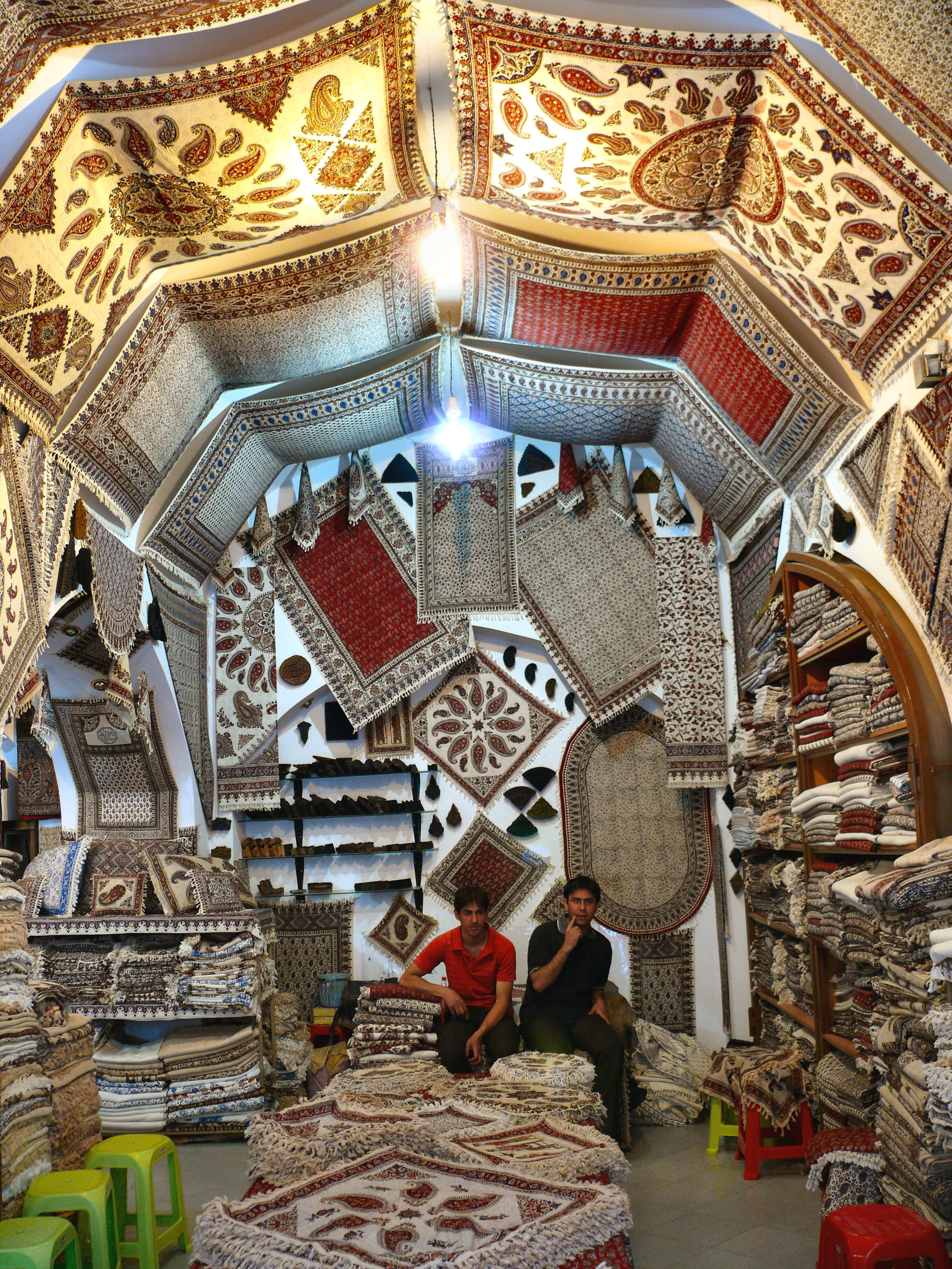 Traditionaly hand printed tissues (Khanam kari) shop in the great bazaar of Isfahan, Iran, April 2007.